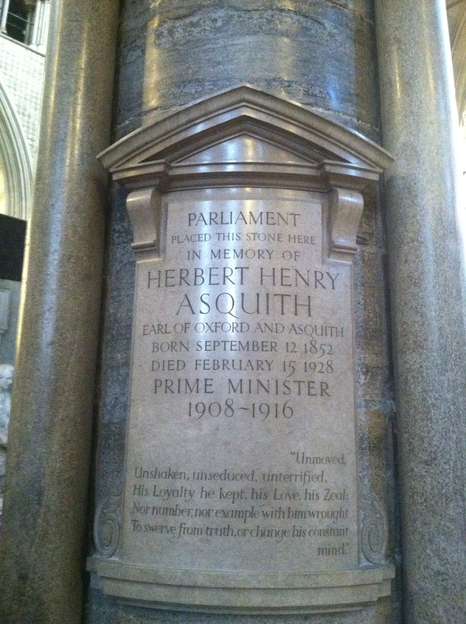 Memorial to Prime Minister Herbert Henry Asquith in Westminster Abbey